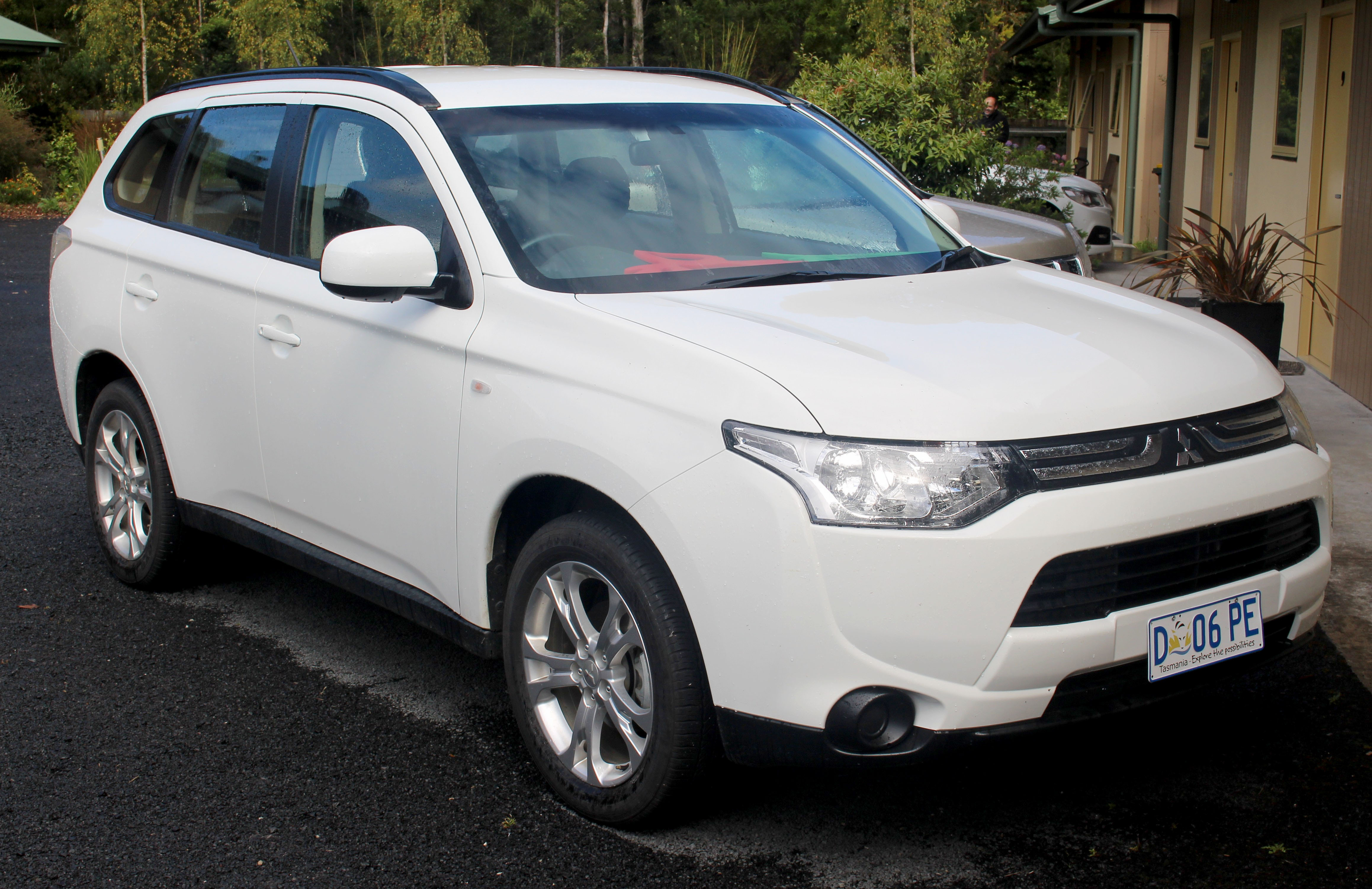 2013 Mitsubishi Outlander (ZJ MY14) ES 2WD wagon. Photographed at the Strahan Motel in Strahan Tasmania Vehicle registration enquiry resultsJurisdictionTasmaniaRegistrationD06PEEngine code4J12MG5008Year of manufacture2013